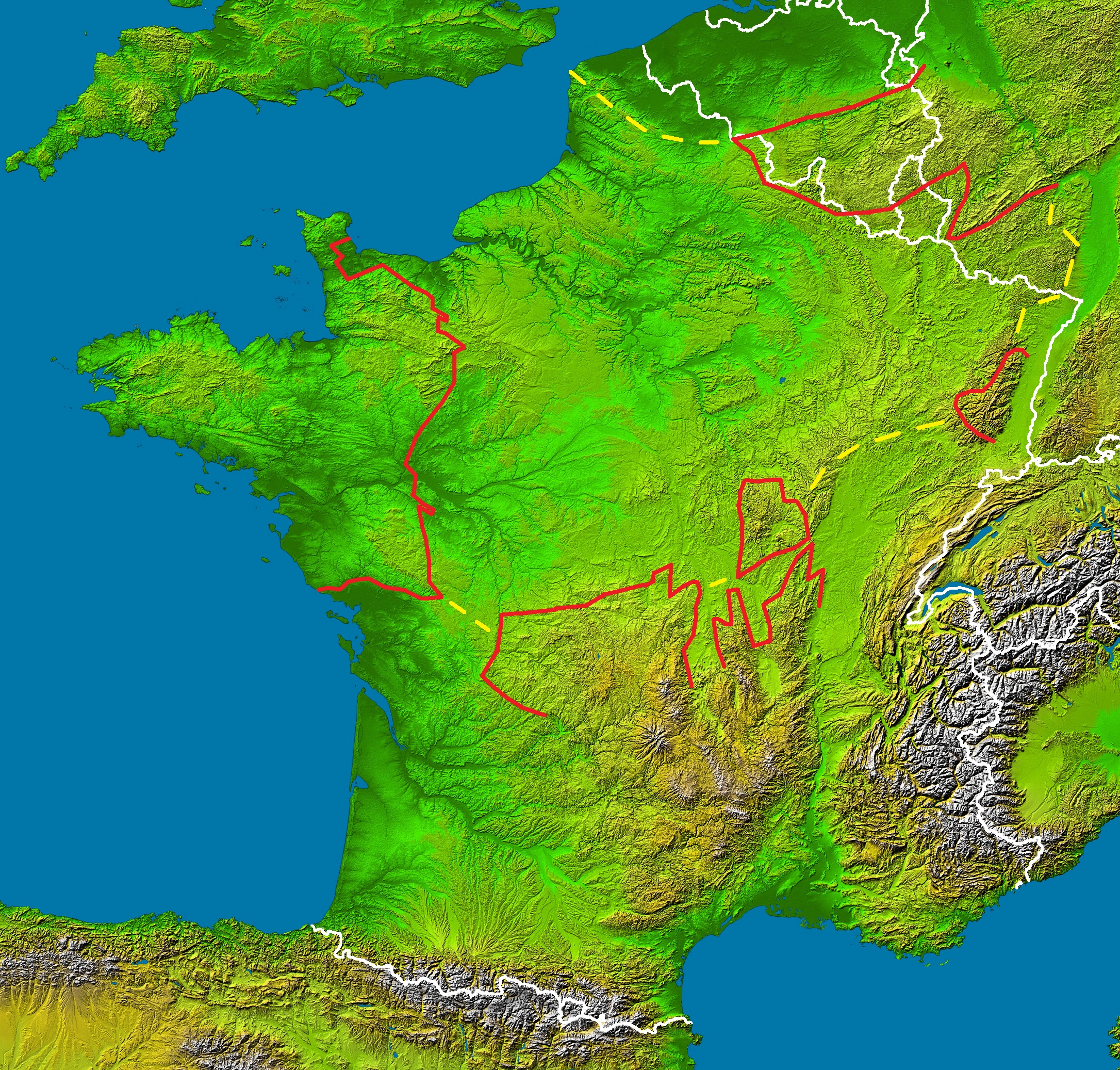 Map indicating the outline of the Paris Basin. Basement massifs in red, the passage ways to other basins are marked in yellow dashes.